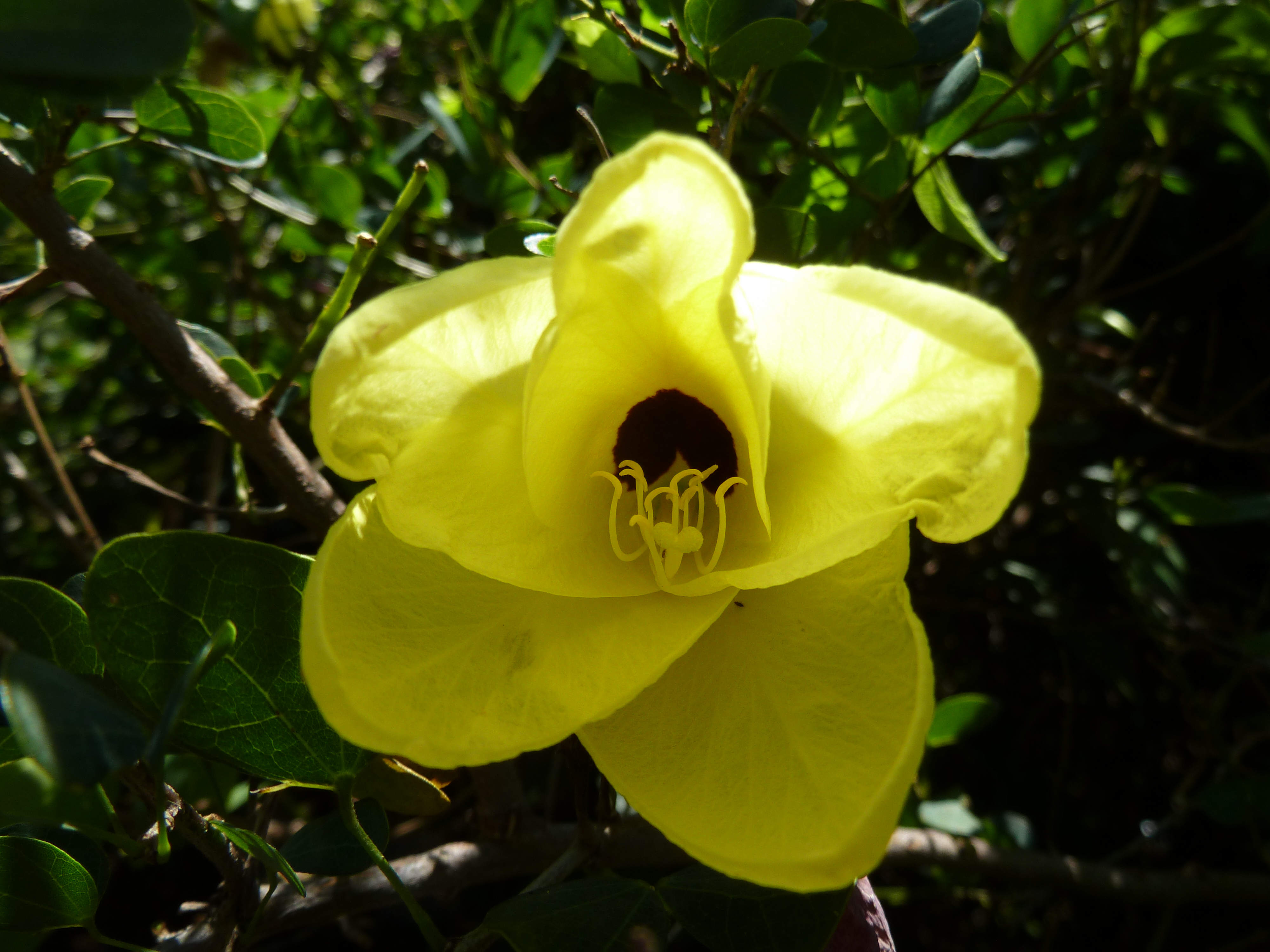 Flower of a Yellow bauhinia in the Manie van der Schijff Botanical Garden, Pretoria, South Africa